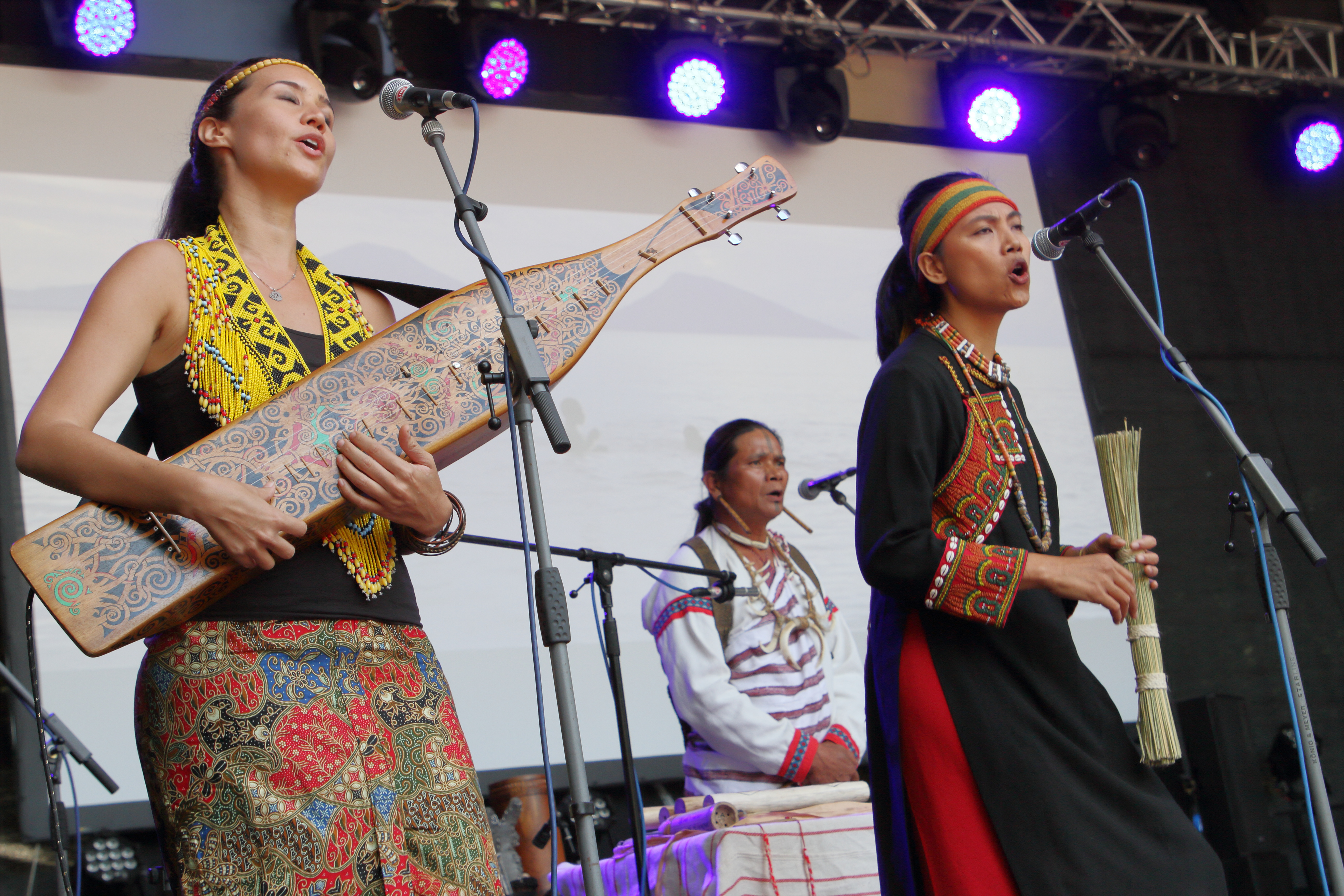 Small Island Big Song at Rudolstadt-Festival 2019. The musicians come from different islands of the Pacifik and Indian Ocean.